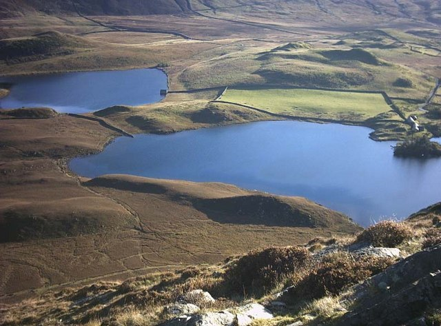 Looking down on Cregennan Lakes from Pared y Cefn Hir.